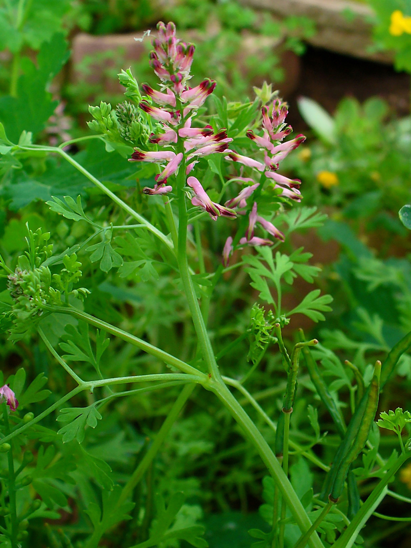 Fumaria officinalis, Papaveraceae, Common Fumitory, Earth smoke, habitus. The plant is used in homeopathy as remedy: Fumaria officinalis (Fum.)